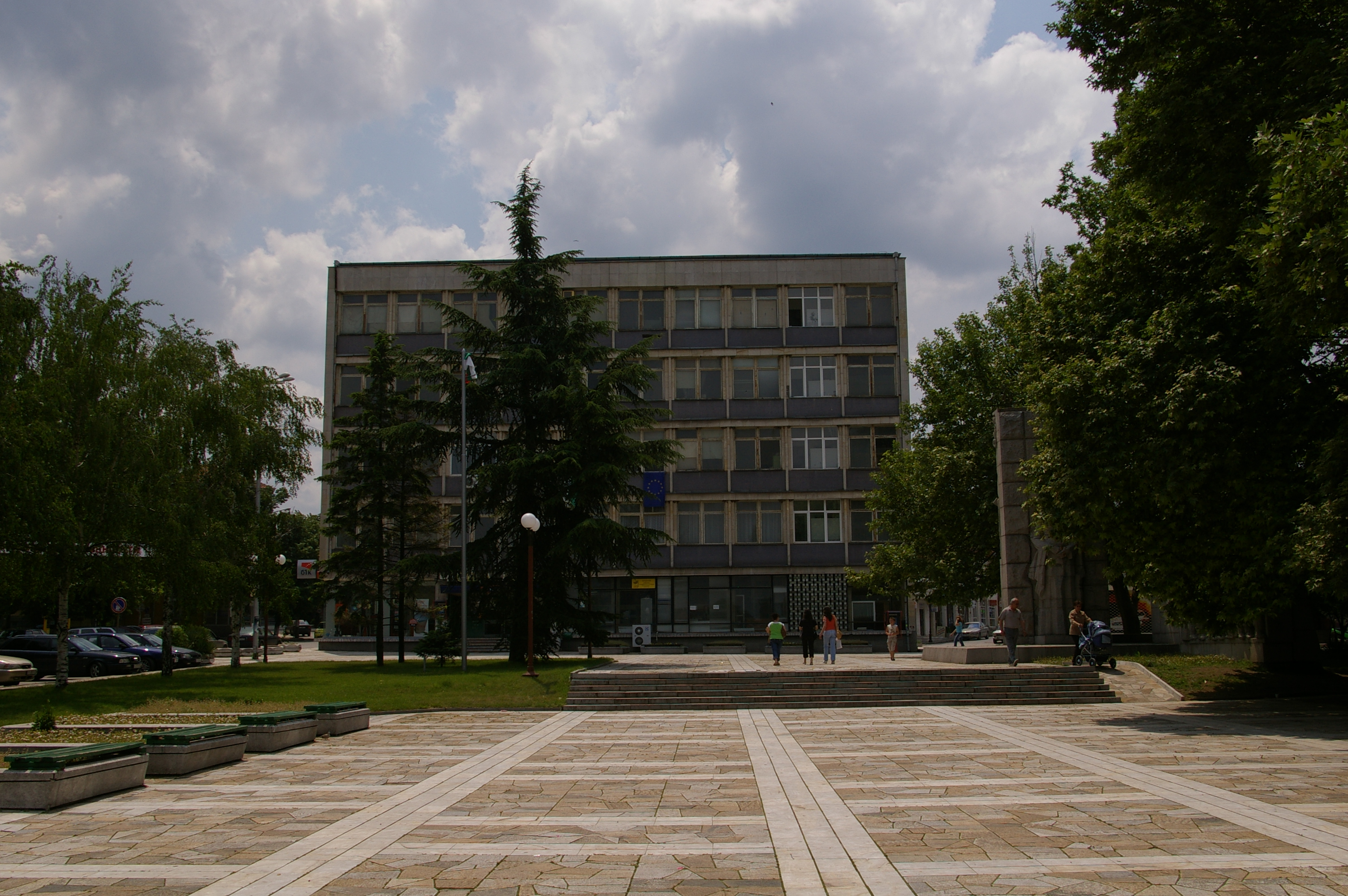 Central square